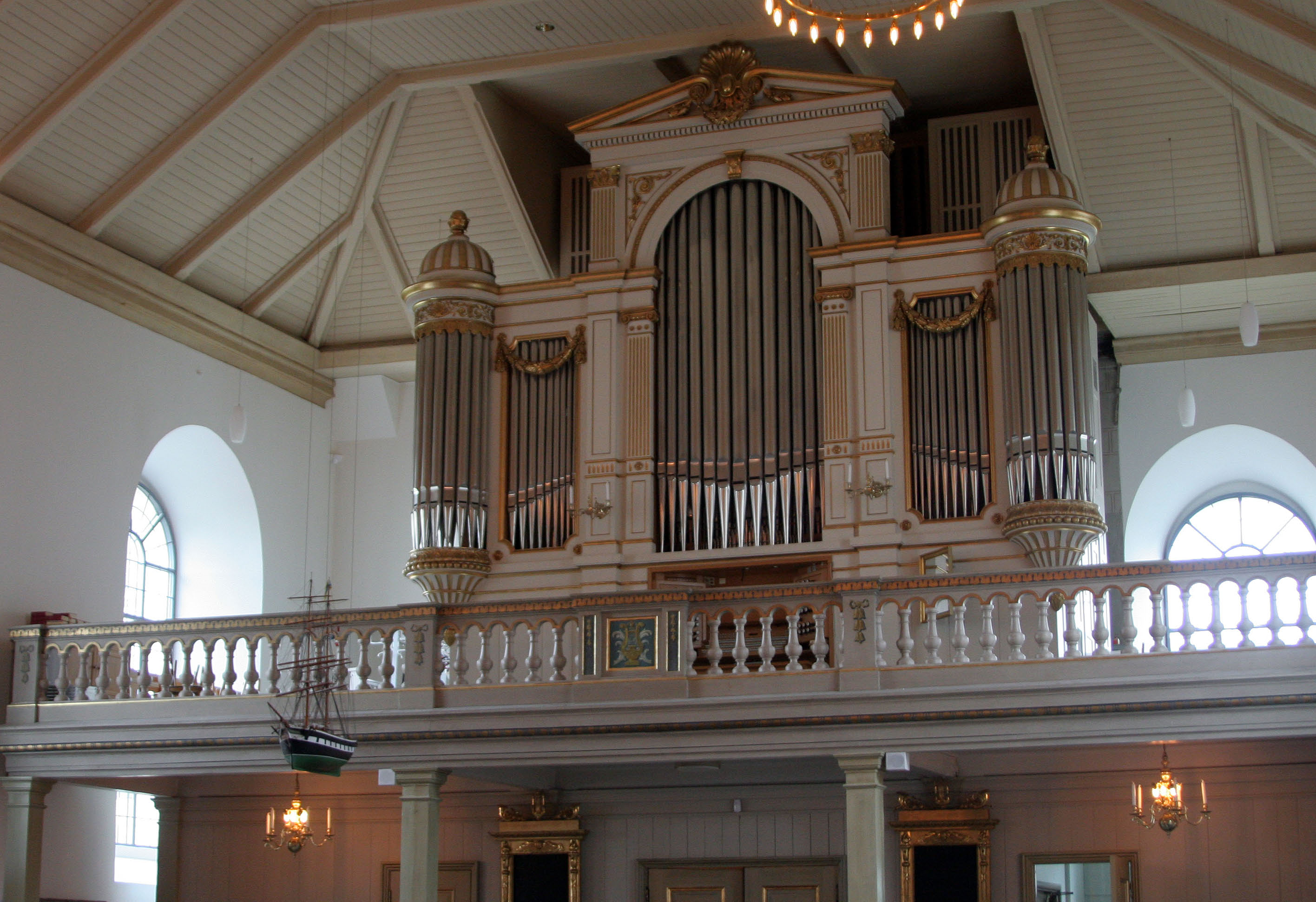 The pipe organ of Carl Gustafs kyrka in Karlshamn, Sweden.